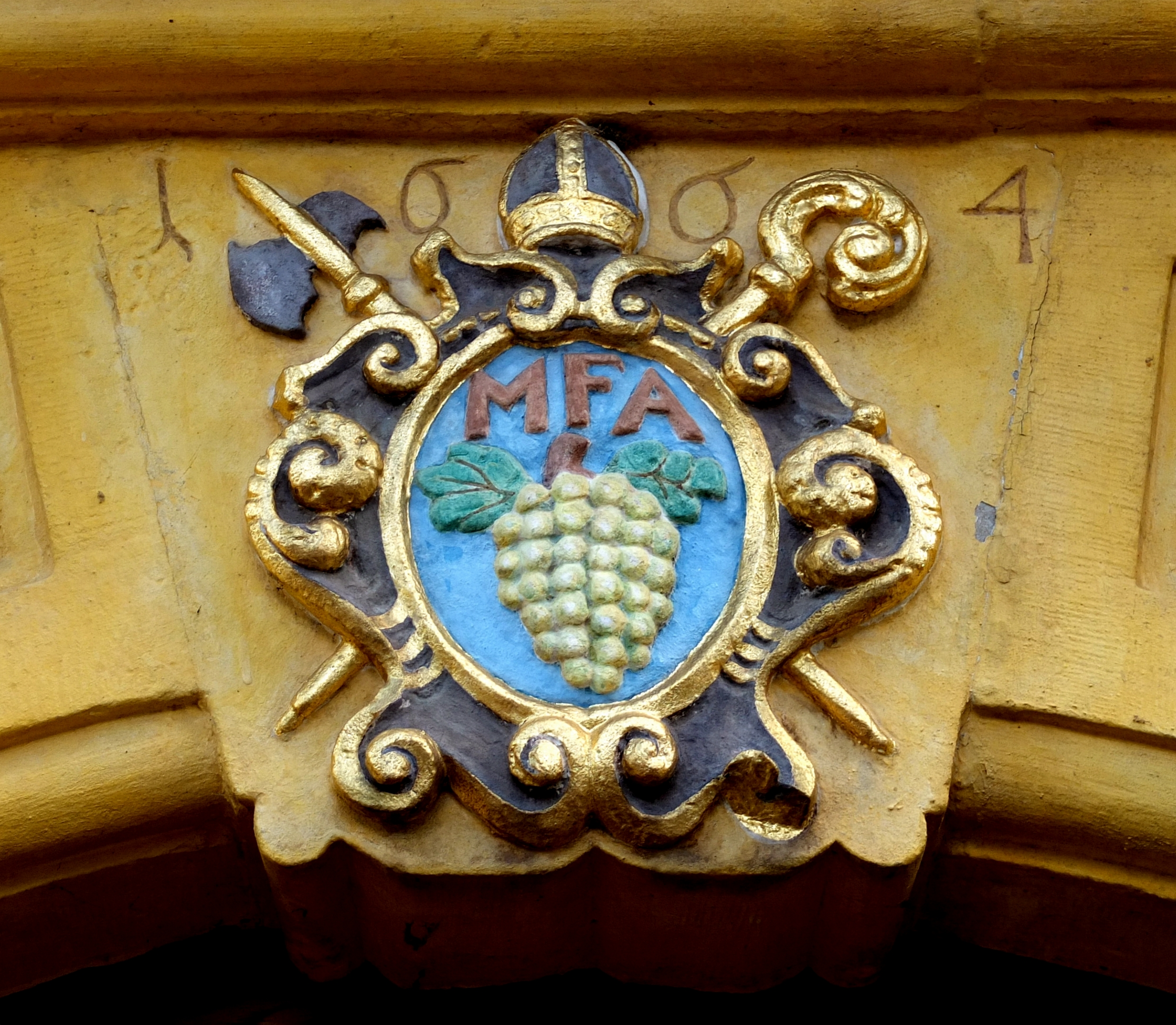 Quirinus-Chapel (1287) at the cemetery of St. Matthias' Abbey, Trier: Coat of arms (1664) of Abbot Martin Feiden (MFA = Martinus Feiden Abbas)